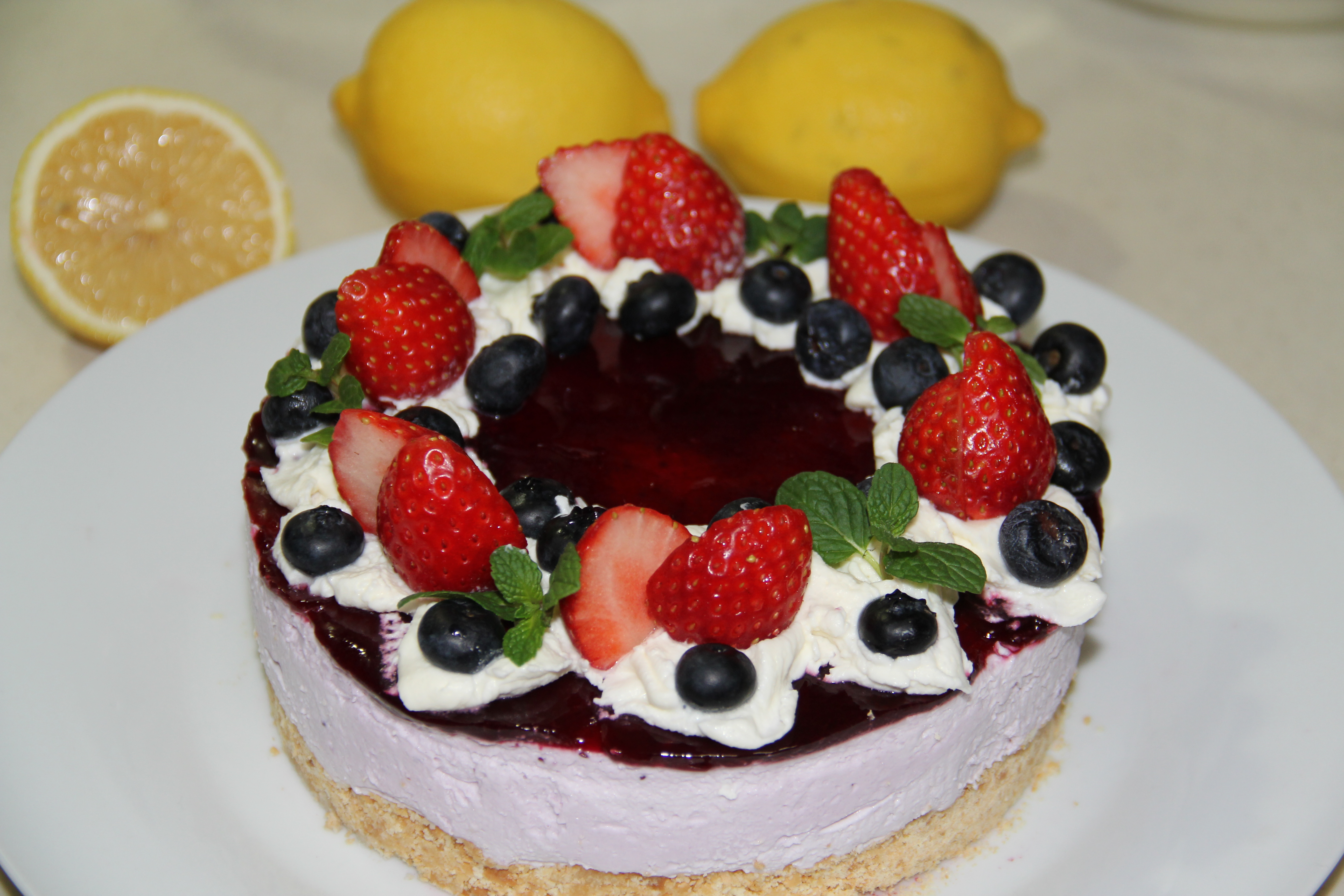 Blueberry rare cheesecake